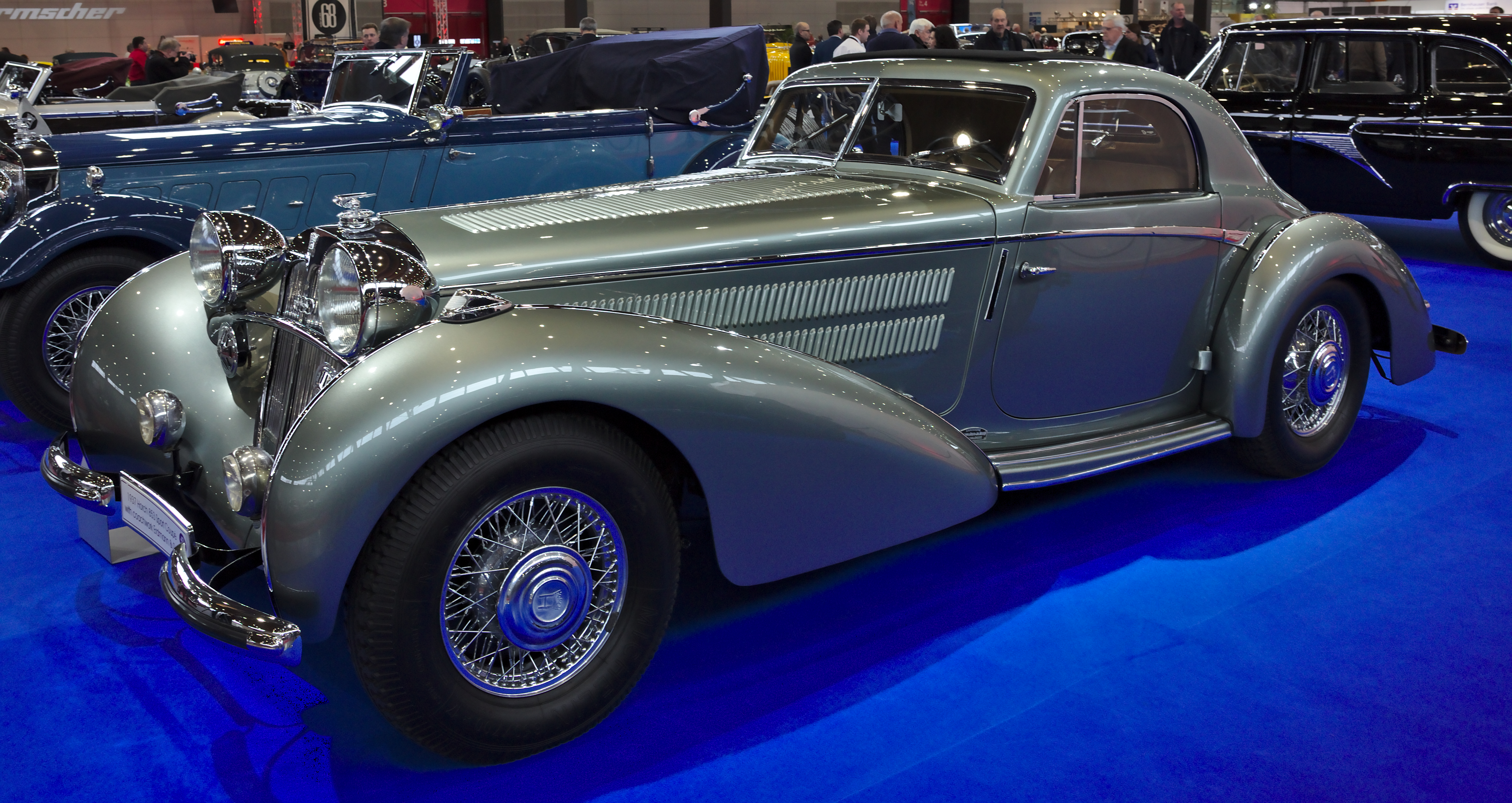 Horch 853 Coupe Sport 'Manuela' at Retro Classics 2018